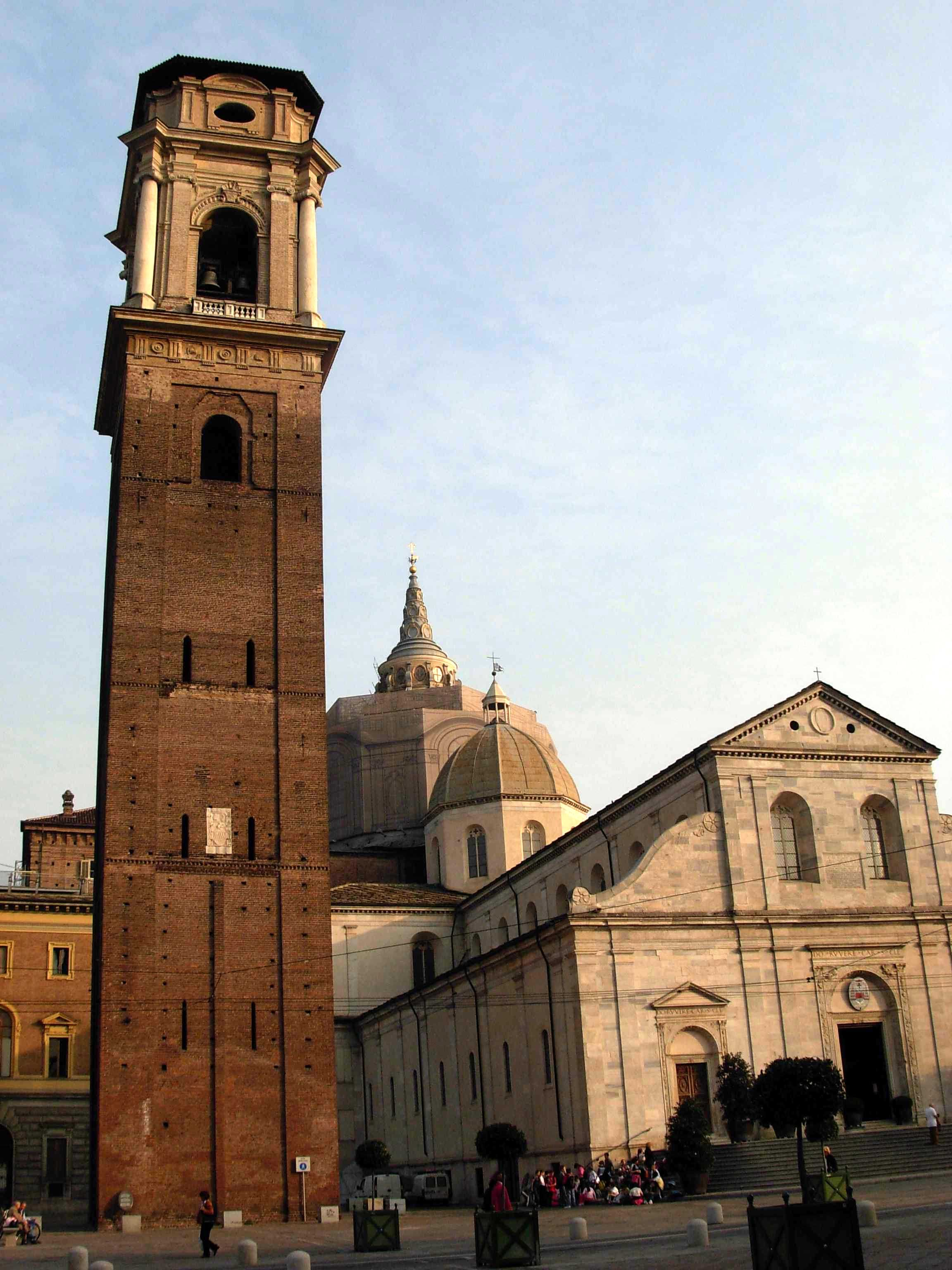 Catholic Cathedral of Torino, 16.X.2008